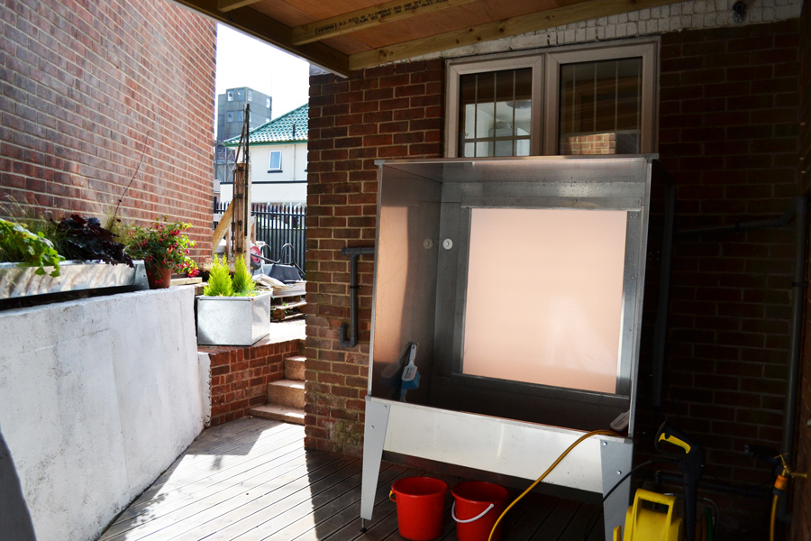 A Wash out for cleaning screens at Squeegee & Ink screen print studio